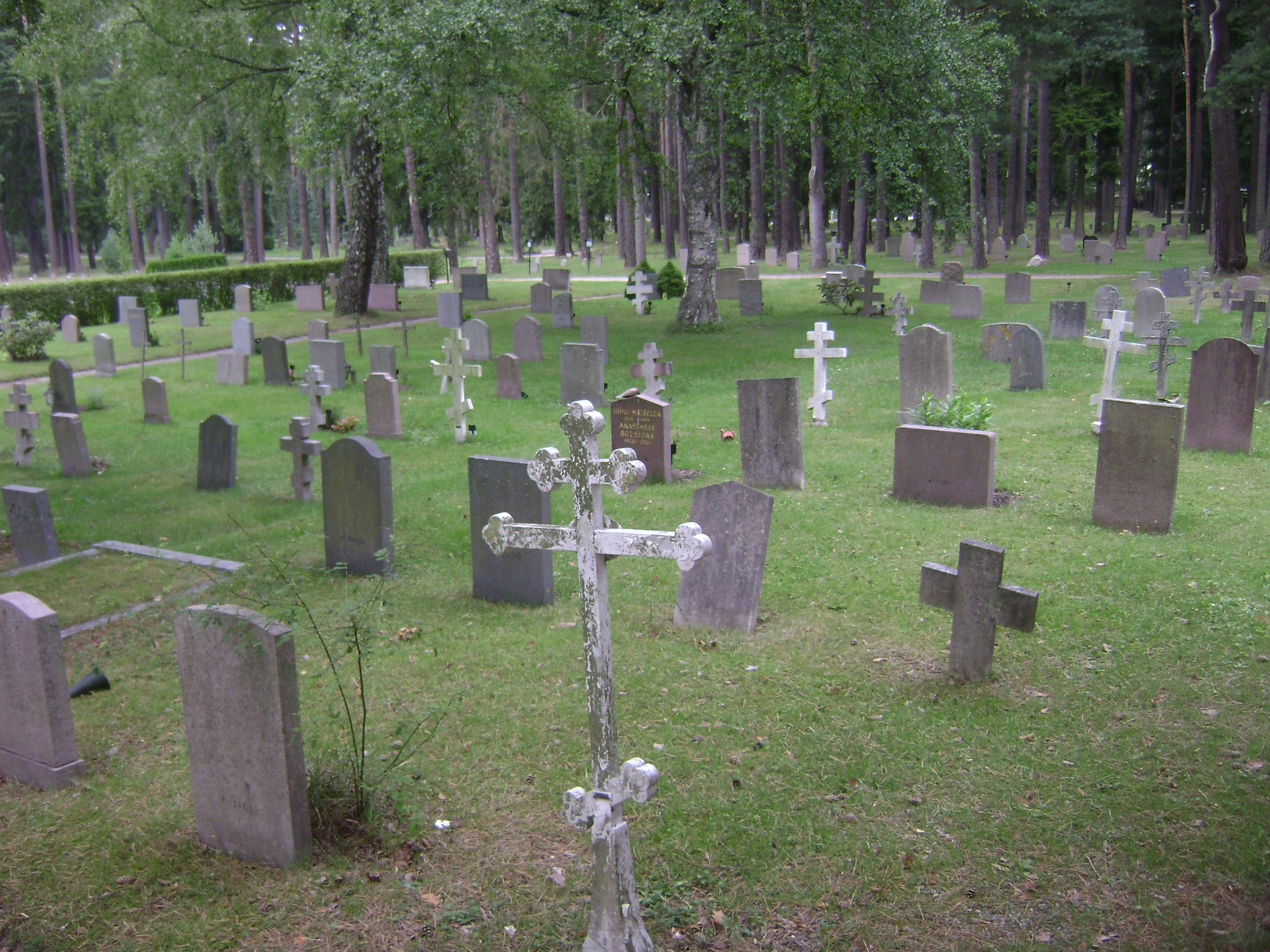 Sweden. Stockholm. Skogskyrkogården